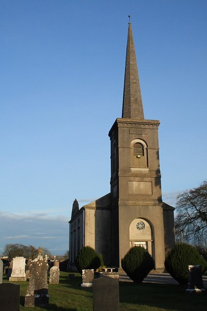 Church with steeple Emo C. of I. church on the R445 north east of Port Laoise.